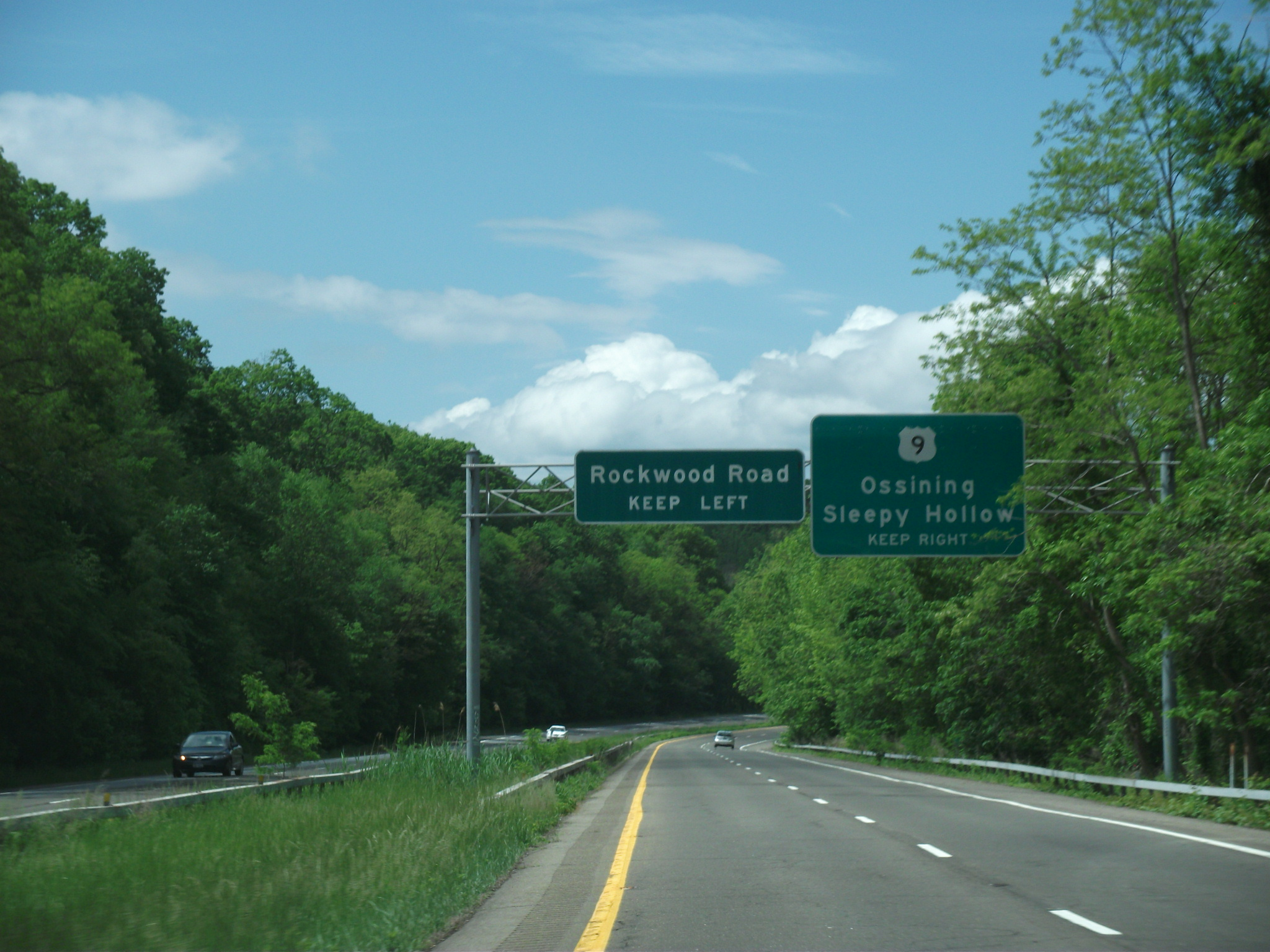 New York State Route 117 southnound approaching its terminus, an interchange with U.S. Route 9 in Mount Pleasant, New York.